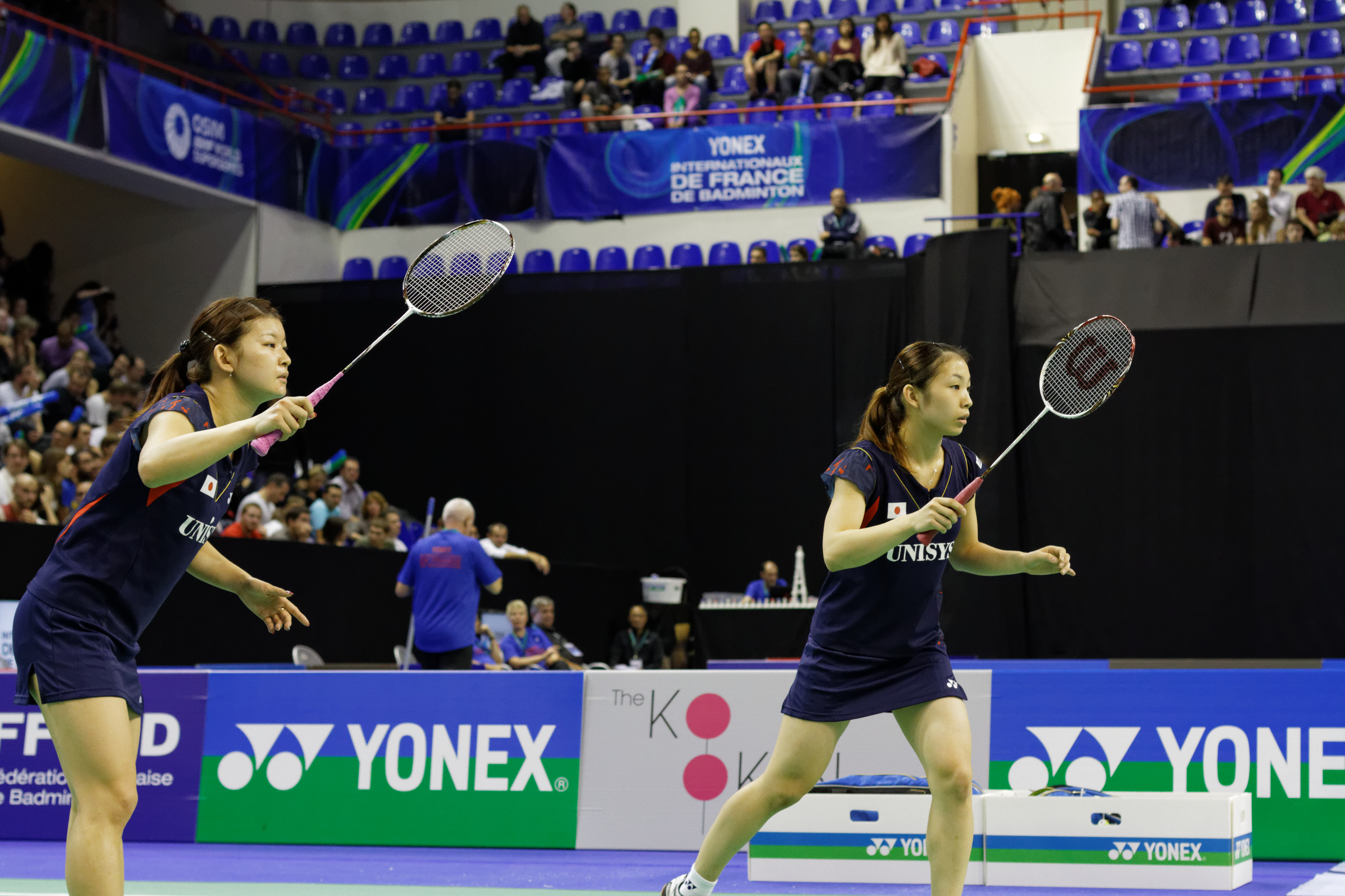 2013 French open. Women's doubles quarterfinal. Tian Qing and Zhao Yunlei vs Misaki Matsutomo and Ayaka Takahashi.